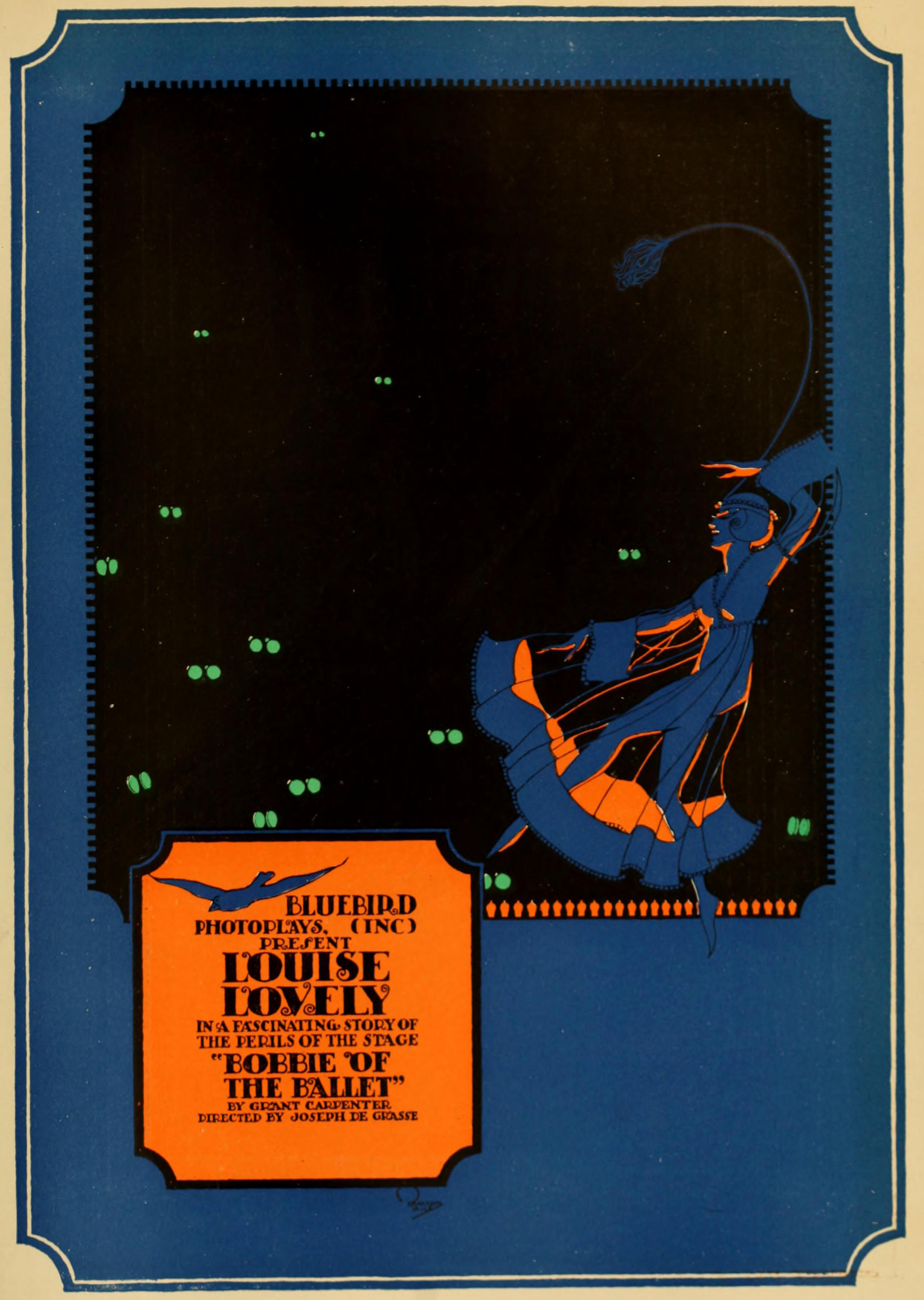 Advertisement in The Moving Picture World for the American film Bobbie of the Ballet (1916).